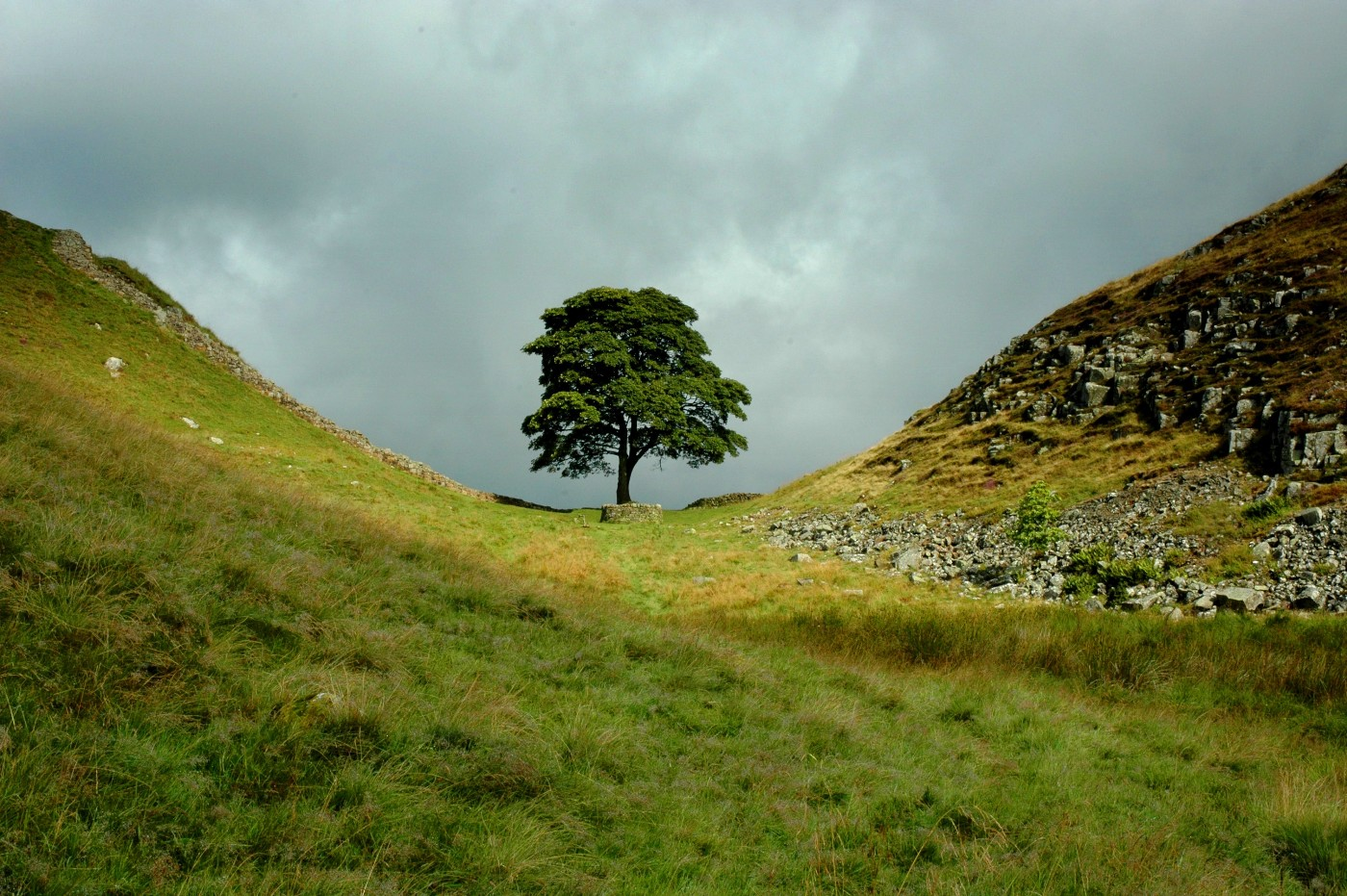 Sycamore Gap during a fleeting break in the clouds, Day 4 of our Hadrian's Wall walk.